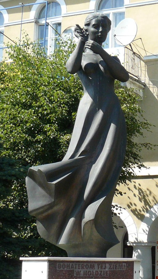 Heros Monument in Bleszki.